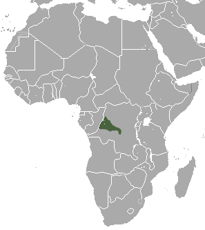 Golden-bellied Mangabey (Cercocebus chrysogaster) range